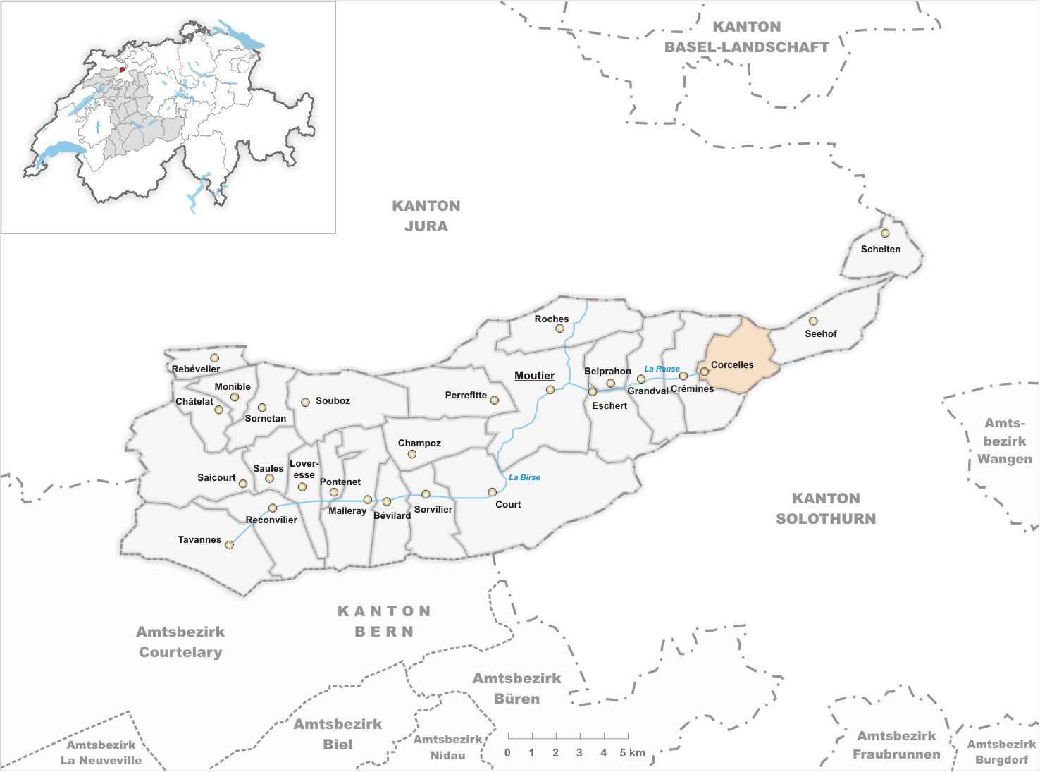 Municipality Corcelles